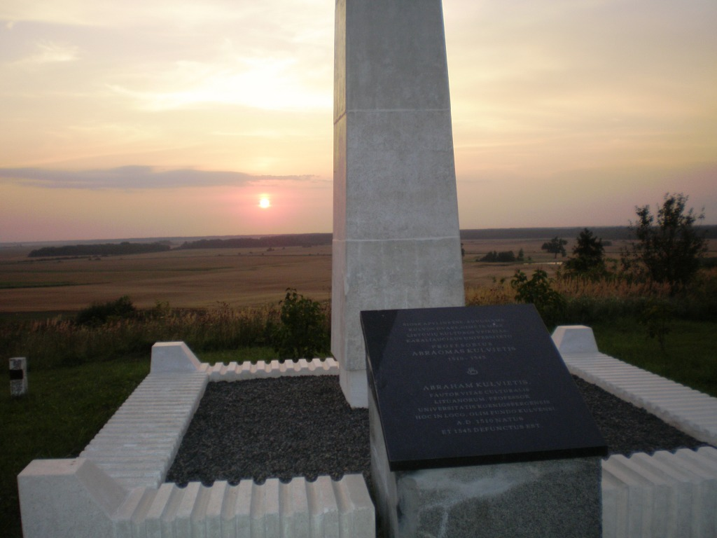 The grave of A.Kulvietis in the highest point of Jonava district